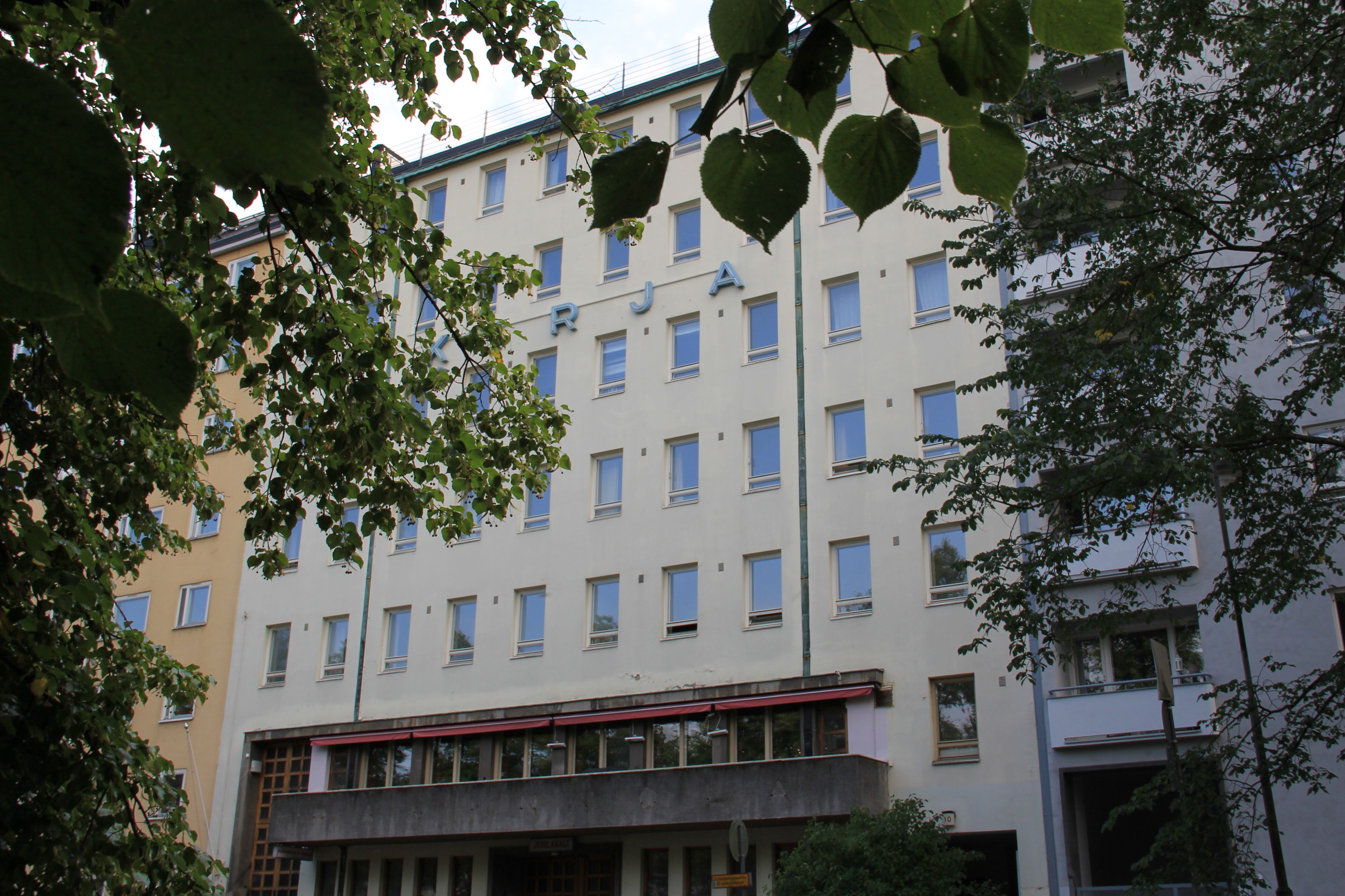 Office building of Book Workers union in Kruununhaka, Helsinki, Finland. - Building was designed by finnish architect Georg Jägerroos (1901-1956) and it was completed in 1935.